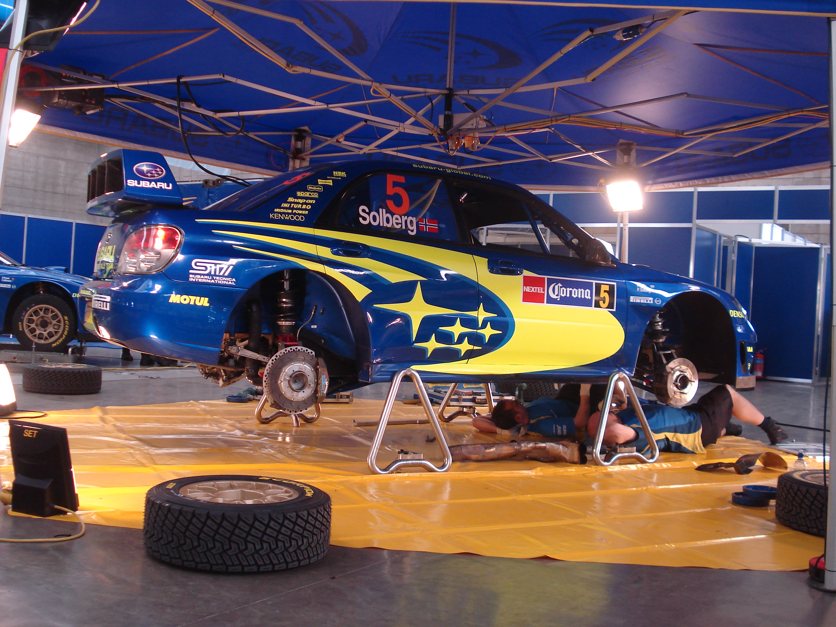 Petter Solberg's Subaru Impreza WRC car is serviced prior to the start of the 2008 Rally Mexico at rally base in the Poliforum in Leon, Mexico.